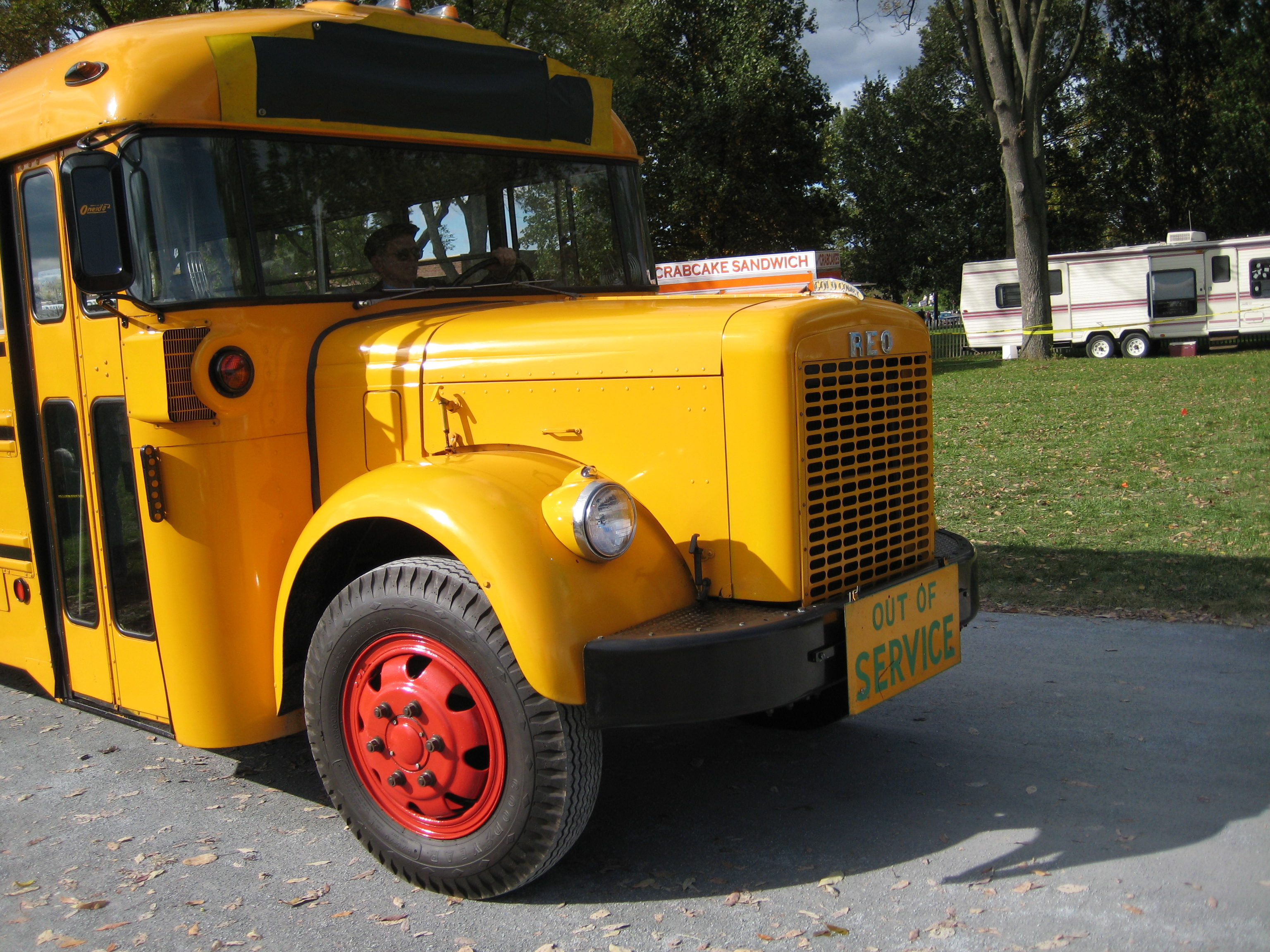 Restored 1940s-1950s REO school bus (retired) photographed at AACA Eastern Region Fall Meet Car Show, Hershey, Pennsylvania. The bus has an Oneida Warrior body produced in Canastota, New York.